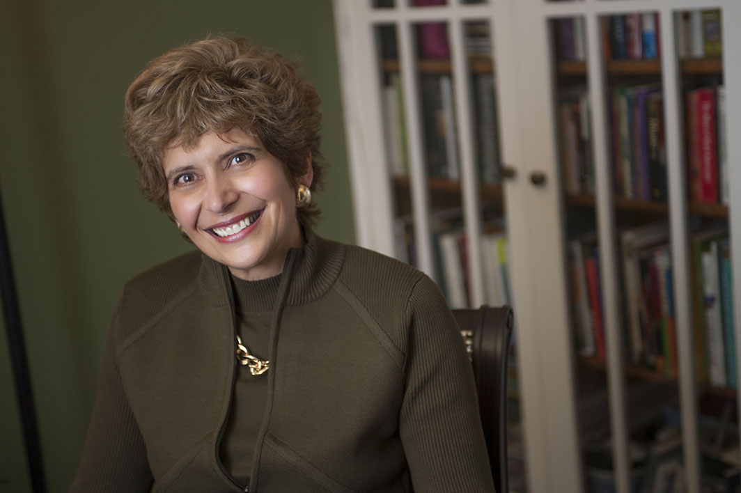 Honors Dean Ilse Mari Lee. MSU photo by Kelly Gorham